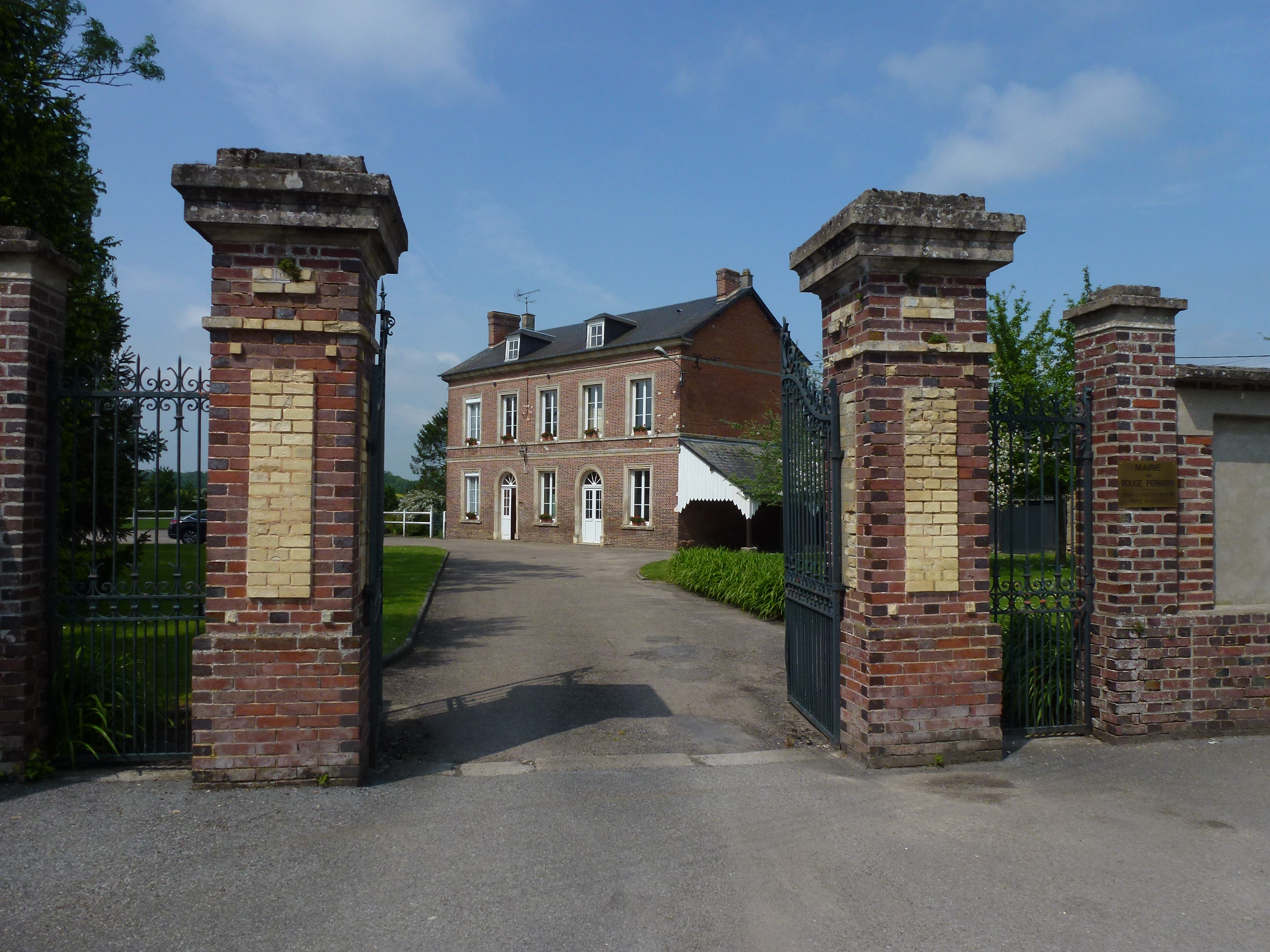 Rouge-Perriers (Eure, Fr) mairie